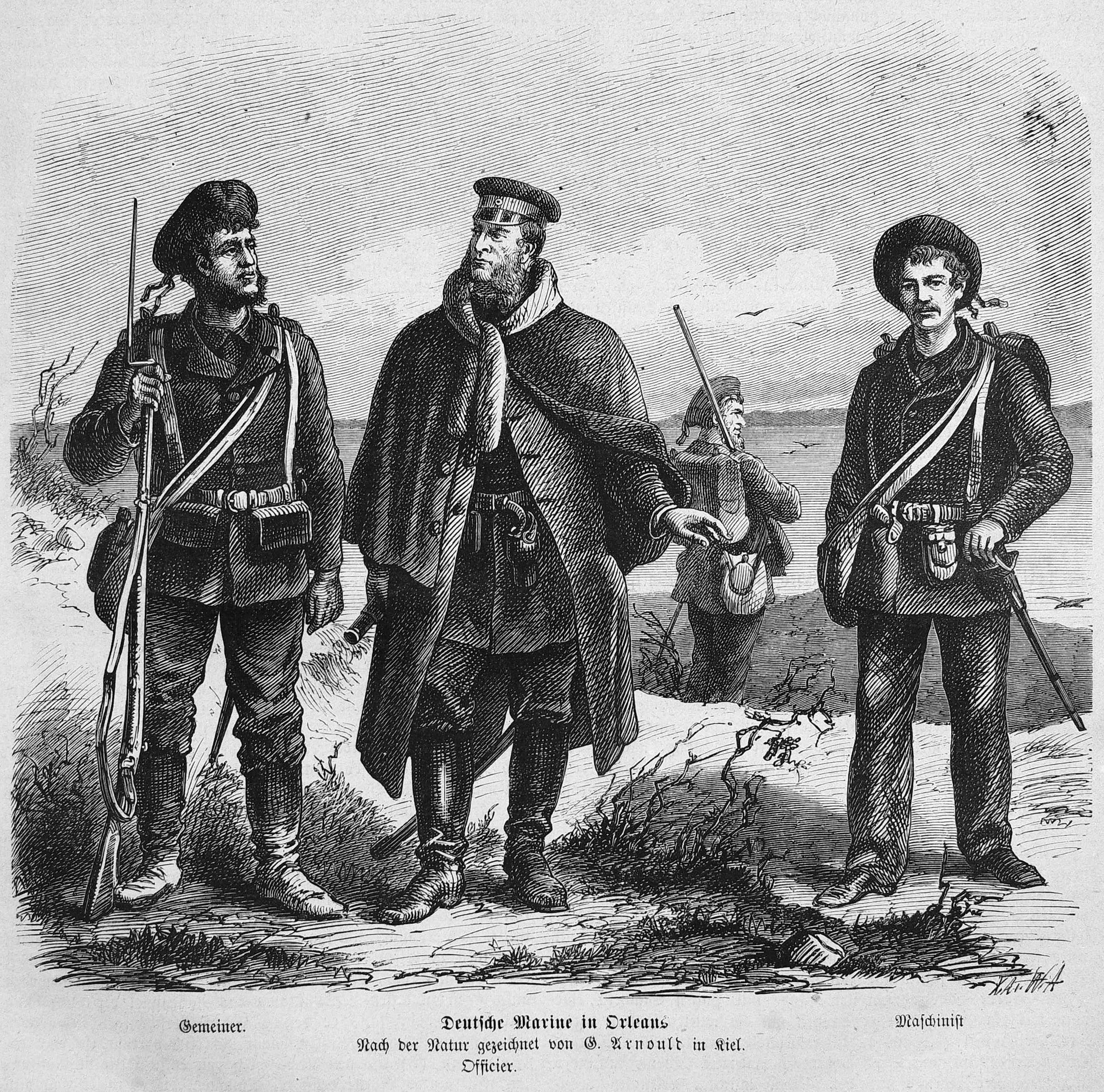 no caption